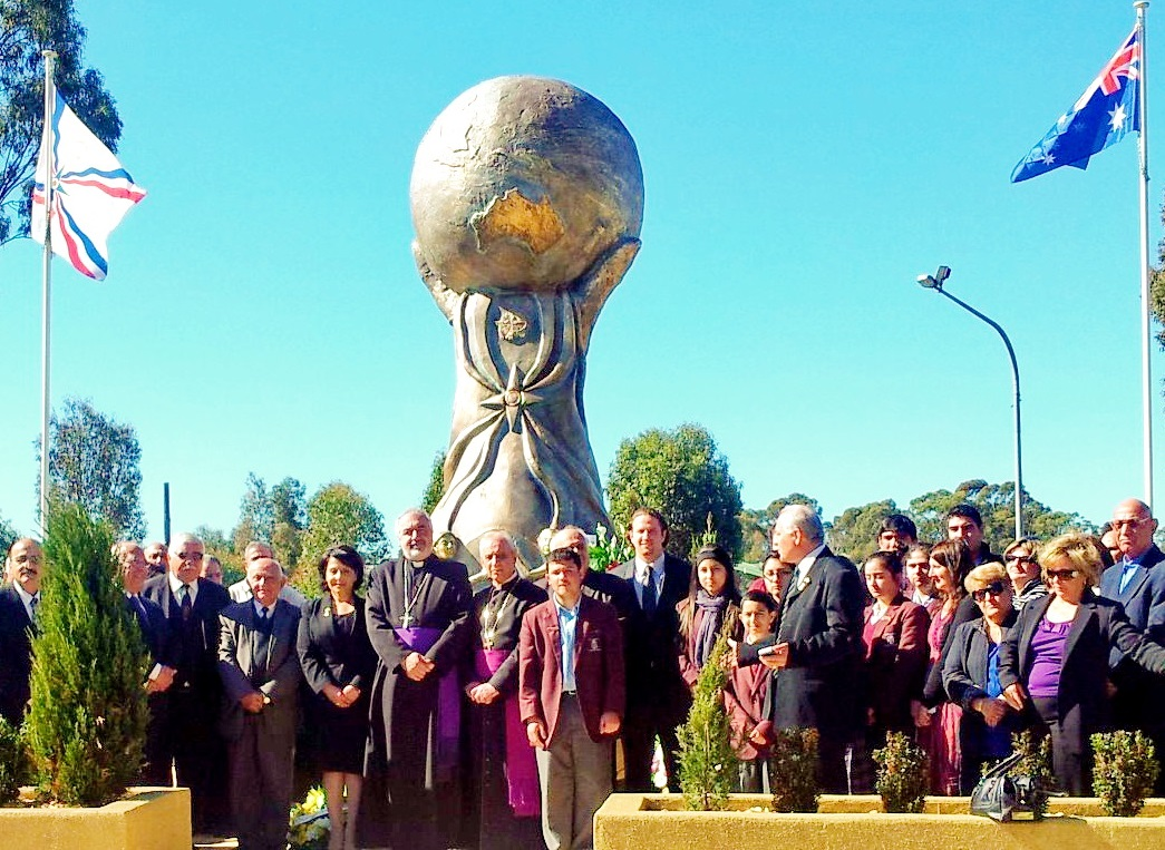 Assyrian Australian people standing in front of the Assyrian Genocide, in Sydney.